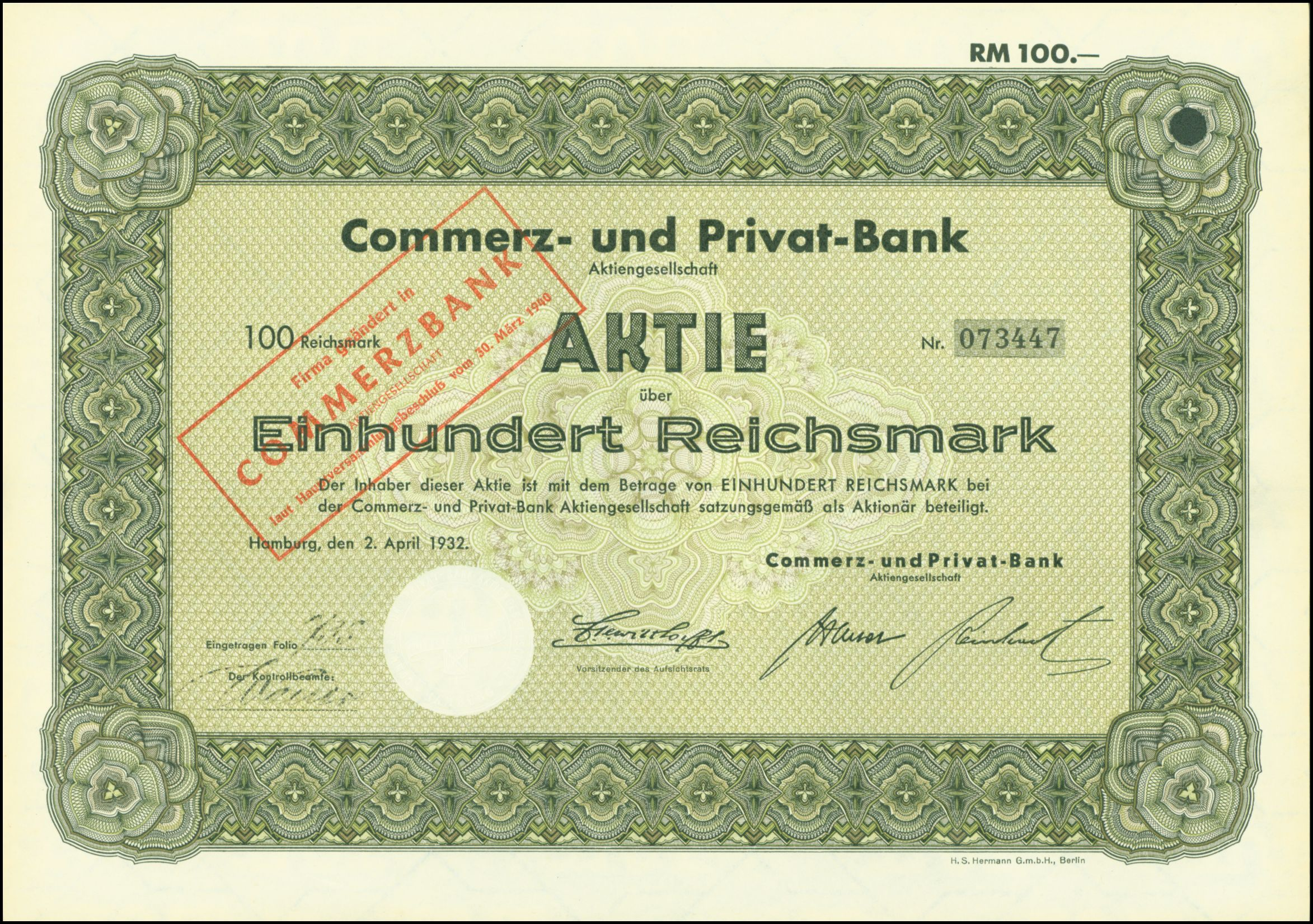 Share of the Commerz- und Privat-Bank AG, issued 2. April 1932